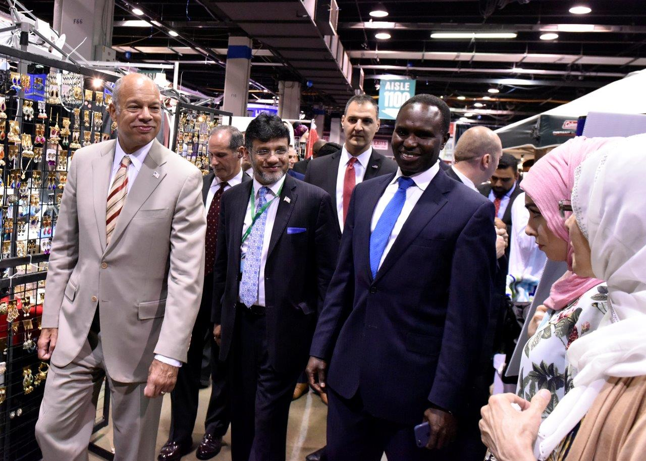 CHICAGO - Secretary of Homeland Security Jeh Johnson speaks at the Islamic Society of North America’s 53rd Annual Convention in Chicago, Sept. 3, 2016. Secretary Johnson has been steadfast in his commitment to build bridges to American Muslim communities, having personally met with leaders in Boston, New York, Philadelphia, rural Pennsylvania, Maryland, Virginia, Detroit, Chicago, Columbus, Houston, Minneapolis, Dearborn, and Los Angeles. Official DHS photo by Barry Bahler.